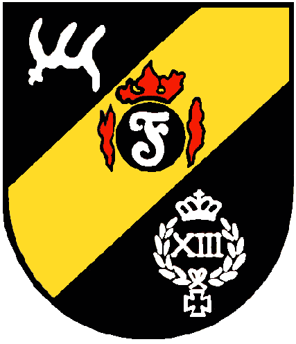 Internal coat of arms Kommandatur Truppenübungsplatz Münsingen (TrpÜbPlKdtr Münsingen) of the Bundeswehr (Armed Forces of the Federal Republic of Germany). → Remarks on naming and categorization scheme